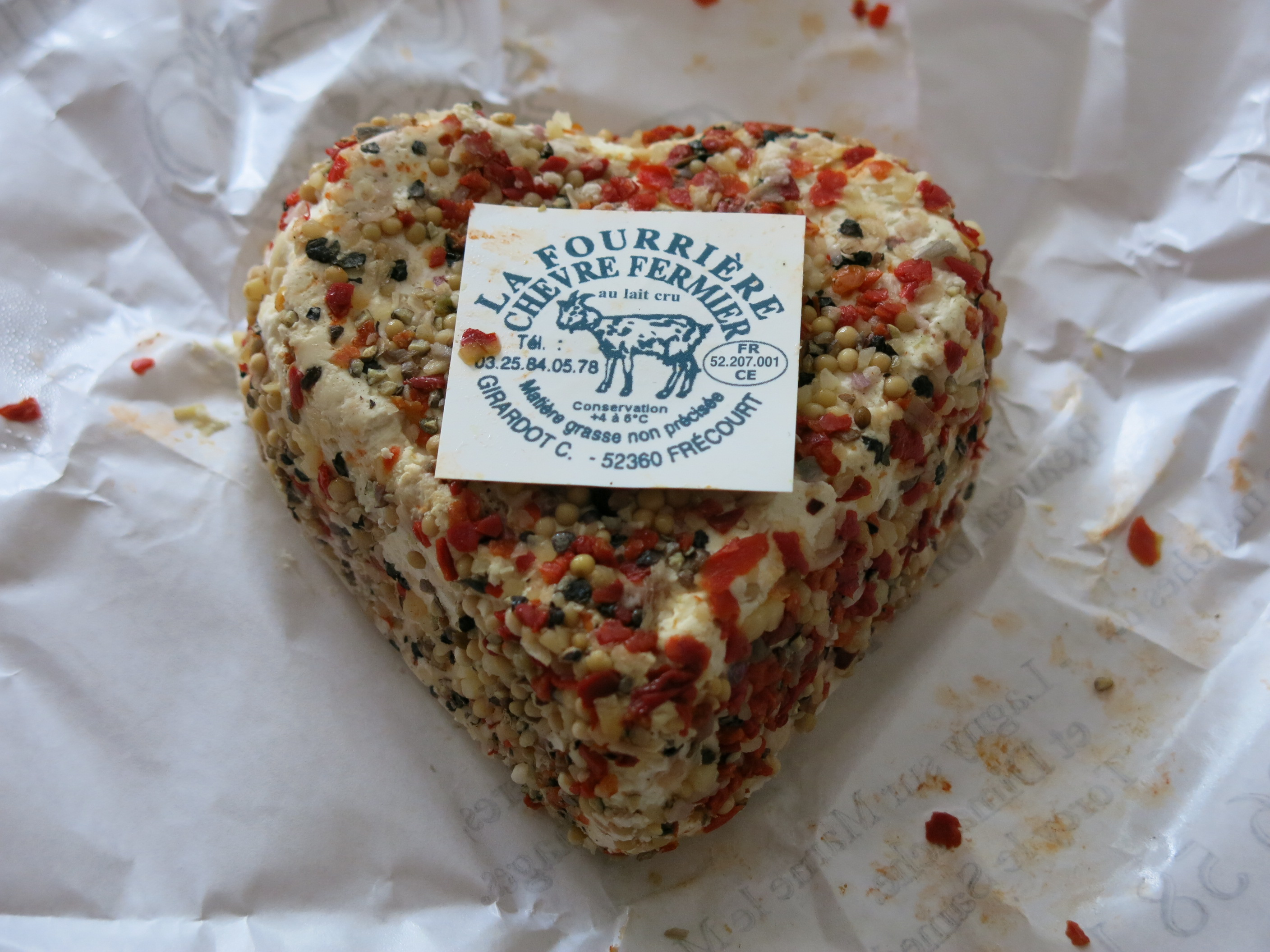 French raw goat's-milk cheese "La Fourrière". Fromagerie Girardot. Frécourt (Haute-Marne, France).